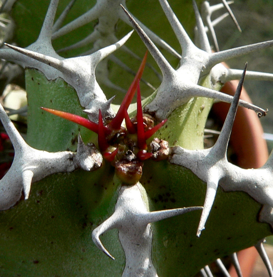 Euphorbia avasmontana, spines